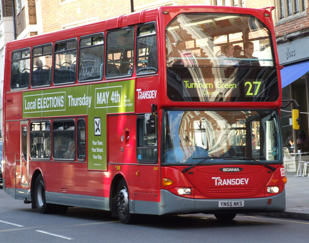 Scania OmniDekka 447 for Transdev, Kensington Church Street, London, 29 April 2006. Picture taken by me, Thomas Blomberg. This picture can be found in gallery Scania AB